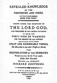 Title page of Richard Brothers's A Revealed Knowledge of the Prophecies and Times, wherein he proclaims his ideas about the English descending from the 10 lost tribes of Israel.